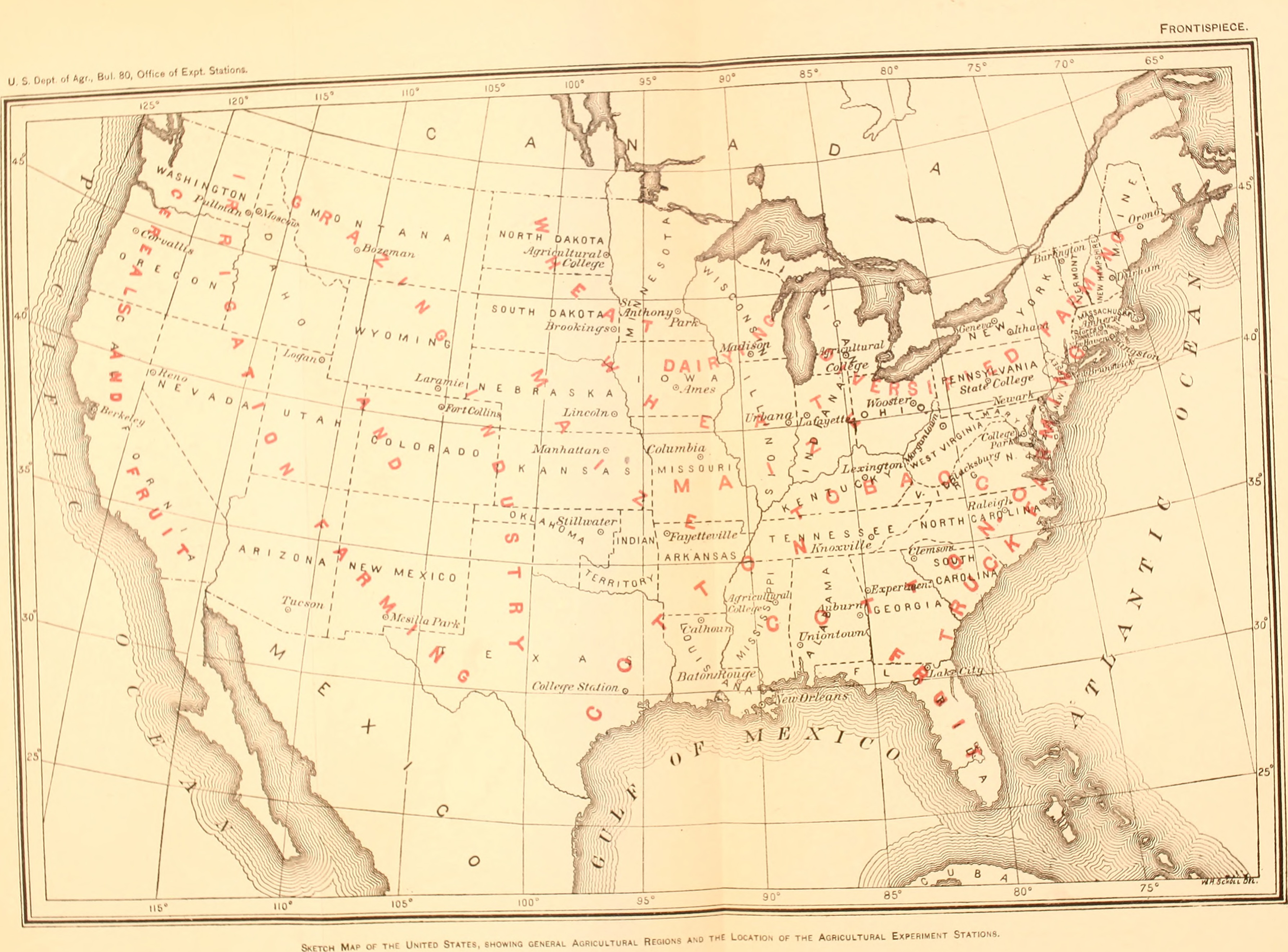 Title: The agricultural experiment stations in the United States Year: 1900 (1900s) Authors: True, Alfred Charles, 1853-1929 Clark, V. A. (Vinton Albert) Exposition universelle internationale de 1900 (Paris, France) Association of State Universities and Land-Grant Colleges Subjects: Agricultural experiment stations United States Agricultural experiment stations United States Bibliography Publisher: Washington : Govt. Print. Off. Text Appearing Before Image: ' Text Appearing After Image: 352522 LETTER OF TRANSMITTAL. U. S. Department of Agriculture, Office of Experiment Stations,Washington, D. C., February 1,1900.Sir: I have the honor to transmit herewith a report on the historyand present status of the agricultural experiment stations in the United- States, prepared at the request of the Committee of the Association ofAmerican Agricultural Colleges and Experiment Stations on the Col-lective Station Exhibit at the Paris Exposition of 1900, and in accord-ance with your instructions governing the work of this Office on mattersrelating to that exposition. At the convention of the Association ofAmerican Agricultural Colleges and Experiment Stations held atMinneapolis, Minn., July 13-15, 1897, it was decided that the associa-tion would undertake the preparation of a Collective Station Exhibitfor the Paris Exposition of 1900, provided the cooperation of theDepartment of Agriculture could be secured, and the following com-mittee was appointed to have charge of this exhibit